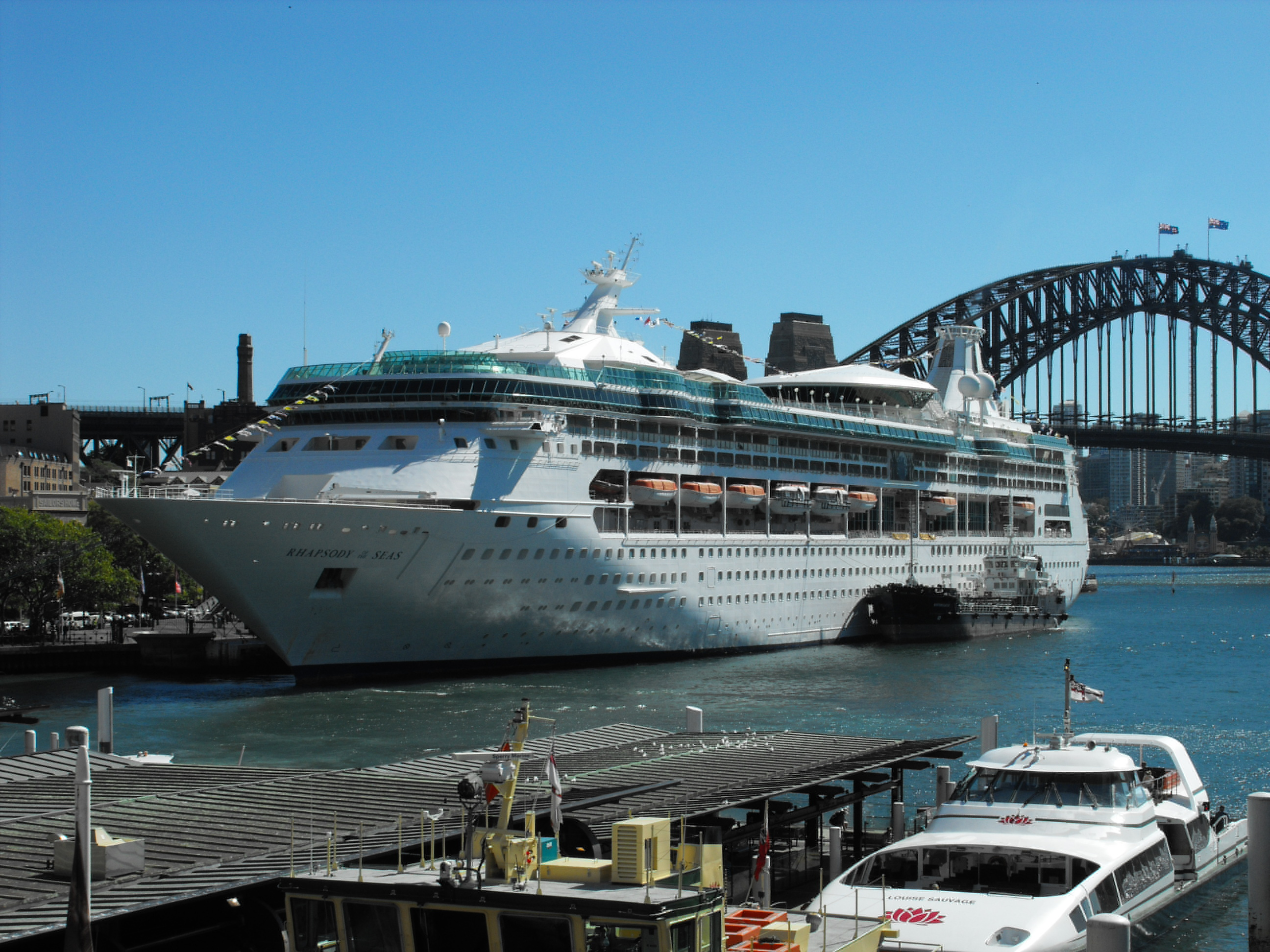 The cruise ship Rhapsody of the Seas docked at the Overseas Passenger Terminal at Circular Quay, Sydney